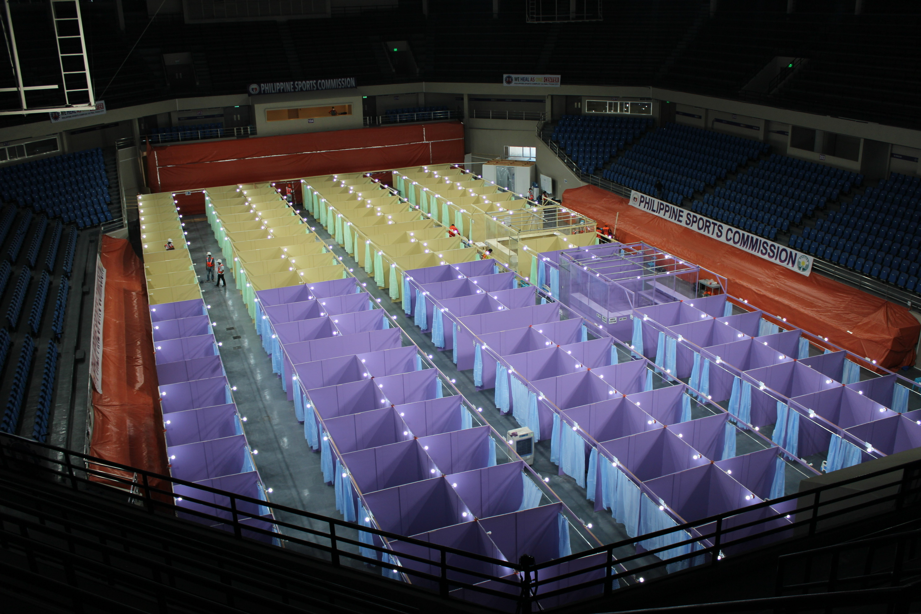 The converted PhilSports (ULTRA) Arena into a health facility for COVID-19 patients